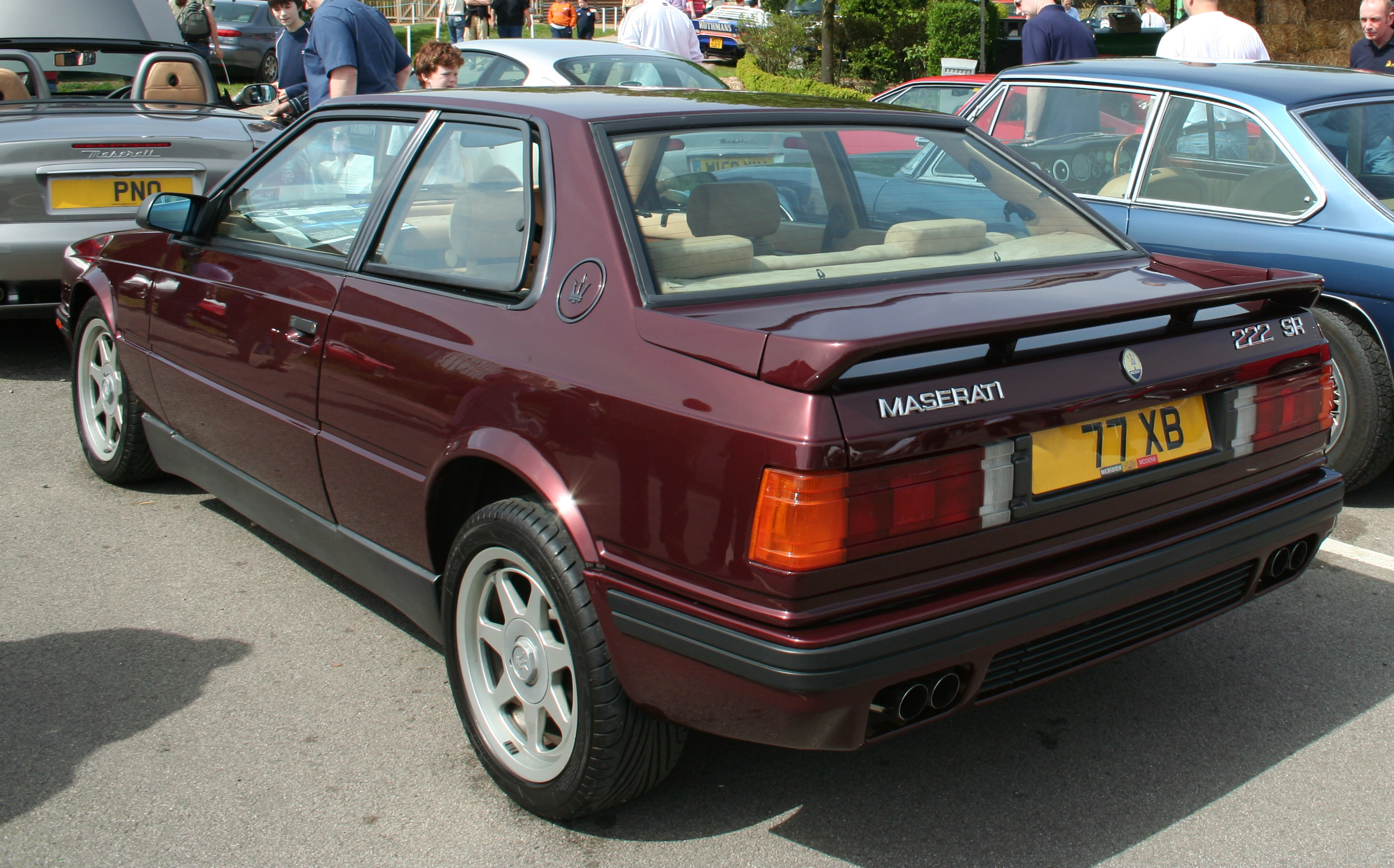 1994 Maserati 222 SR (2790cc) at the Brooklands AutoItalia day, May 2008